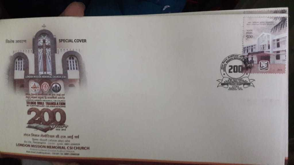 postal cover on the occasion of 200 years of first telugu bible